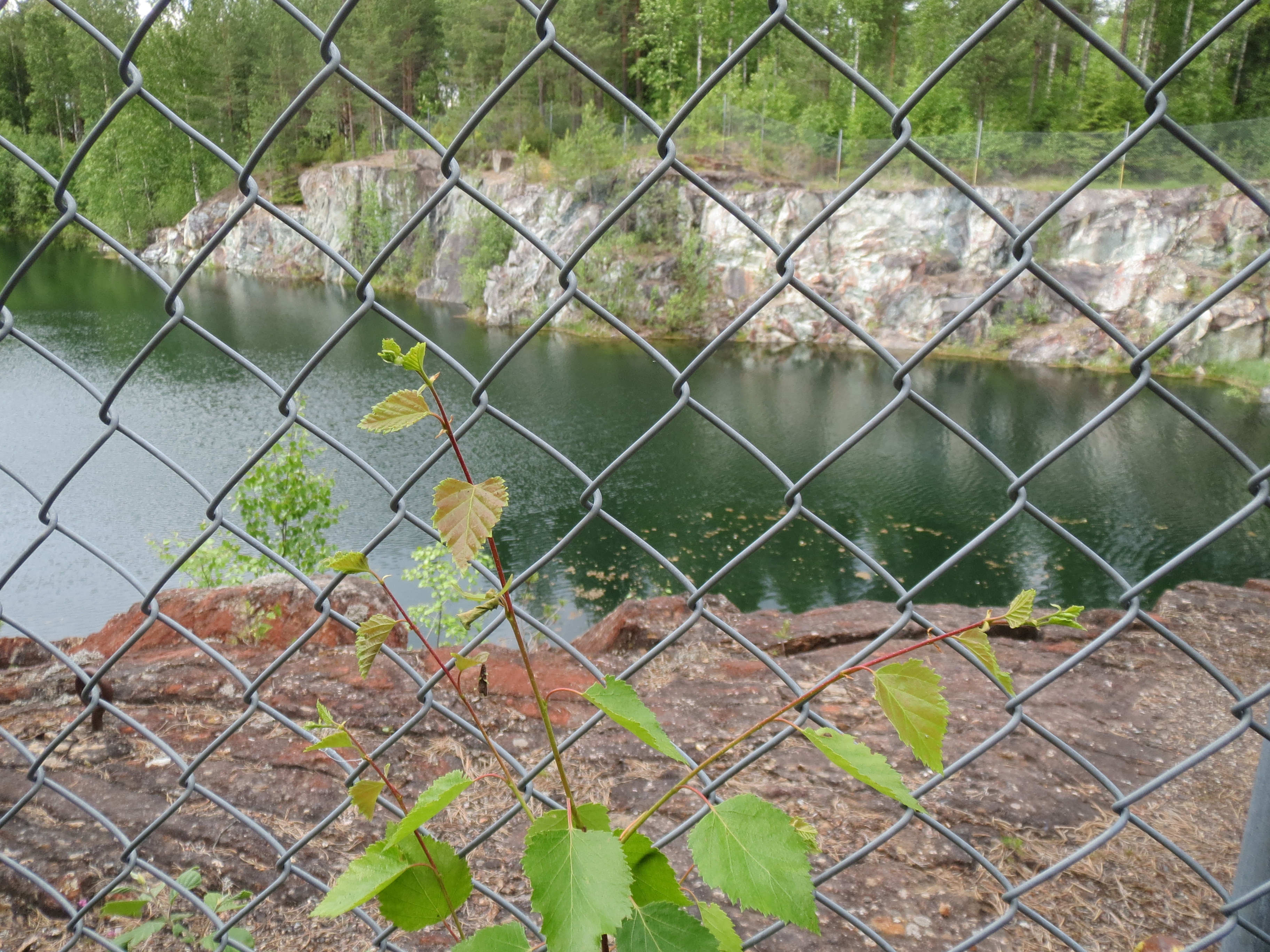 Old talc mine in Kajaani Finland